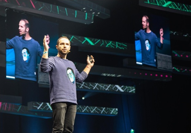 Aza Raskin in 2019